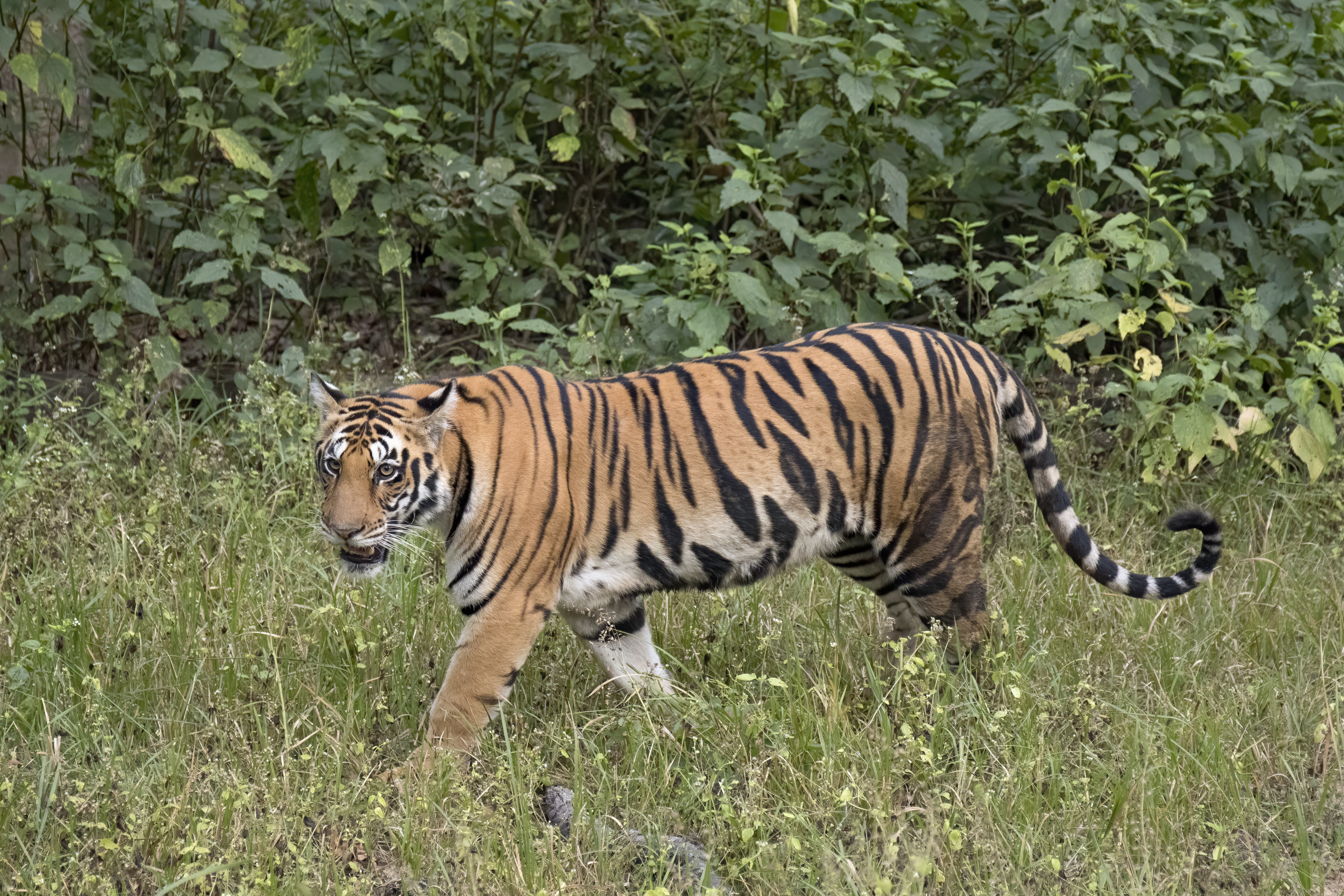 Bengal tiger (Panthera tigris tigris) female, Kanha National Park, India